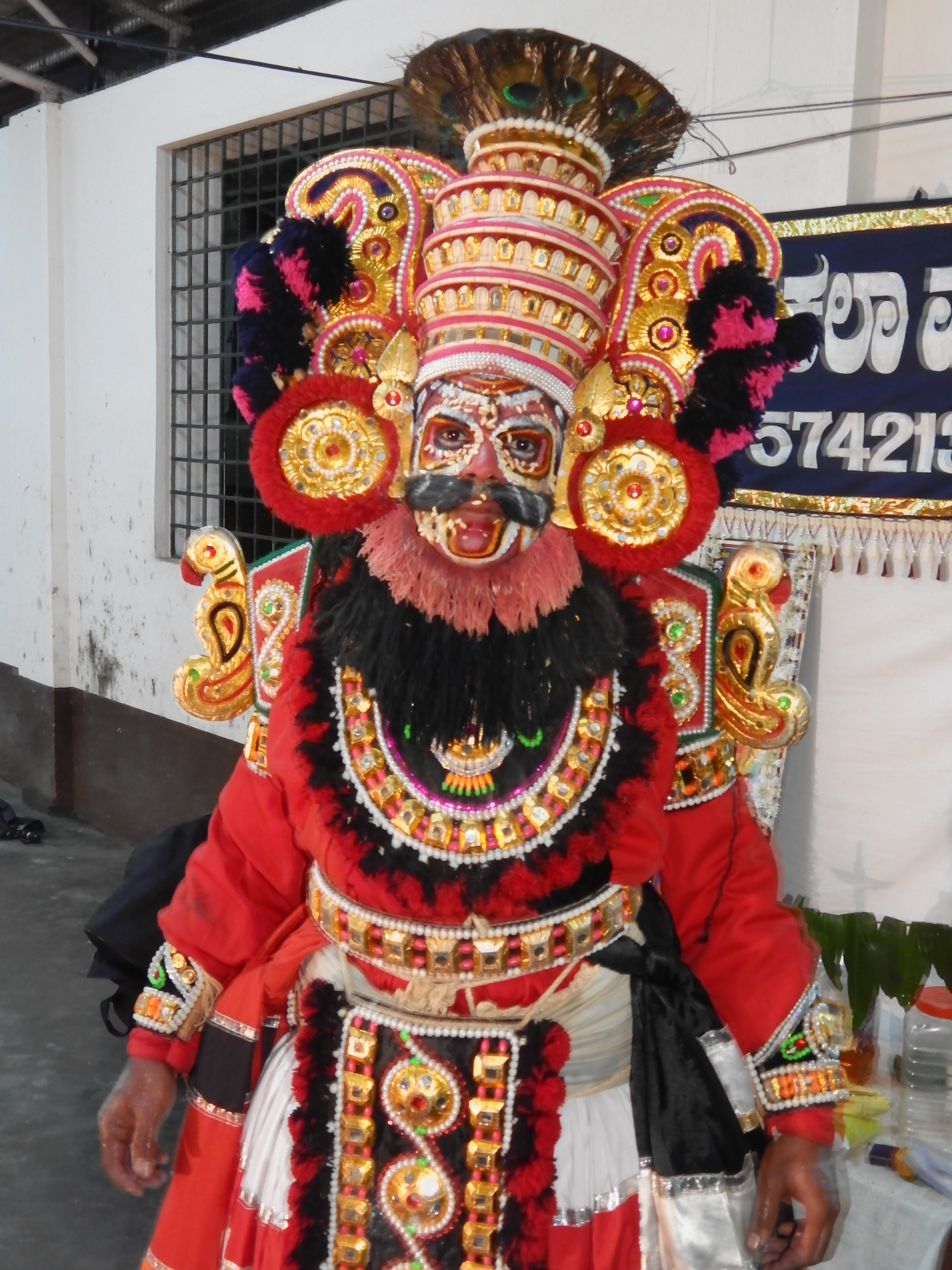 This image shows thenkuthittu style of Veerabhadra Vesha. This image was taken after the stage performance, in this image one can see sticking puffed rice on face which was sprinkled during performance.